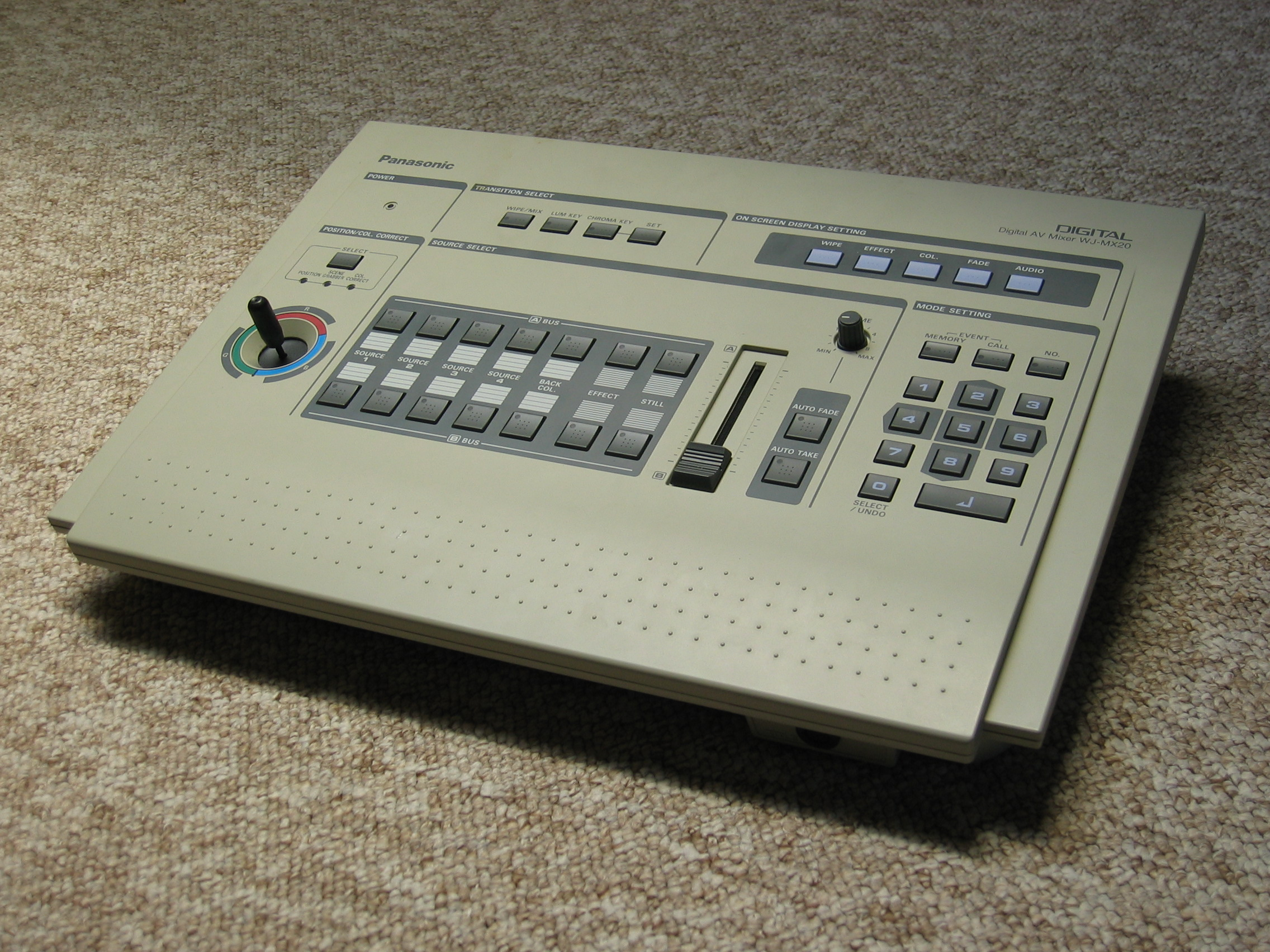 Panasonic Digital AV Mixer WJ-MX20.